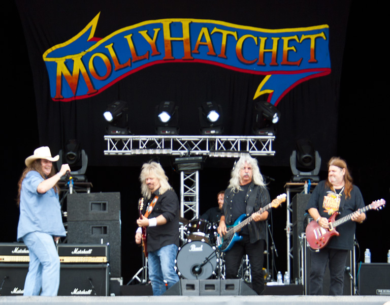 Molly Hatchet at Hellfest 2012 on 15th June, Clisson, France